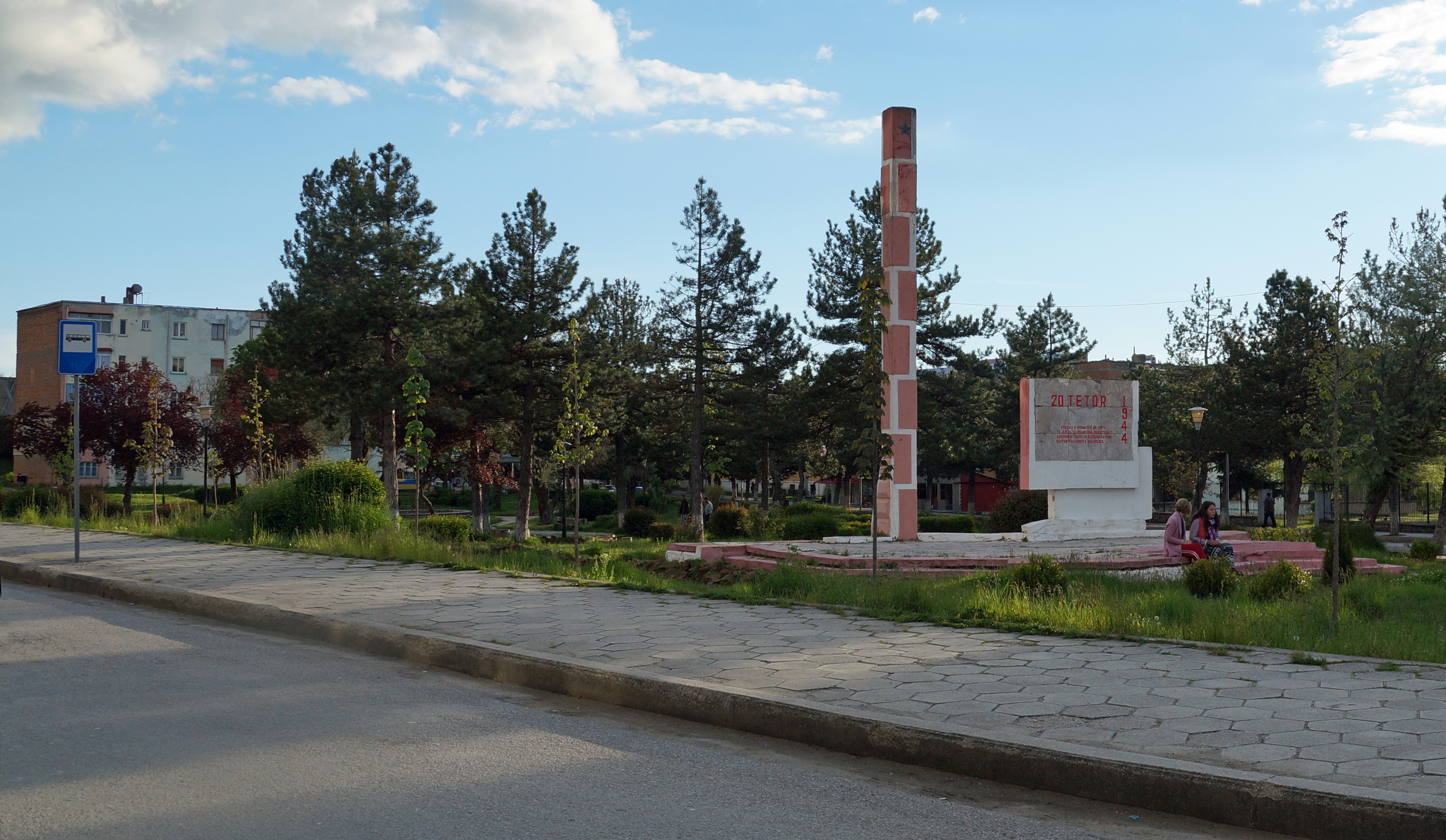 Erseka, Southern Albania – city park